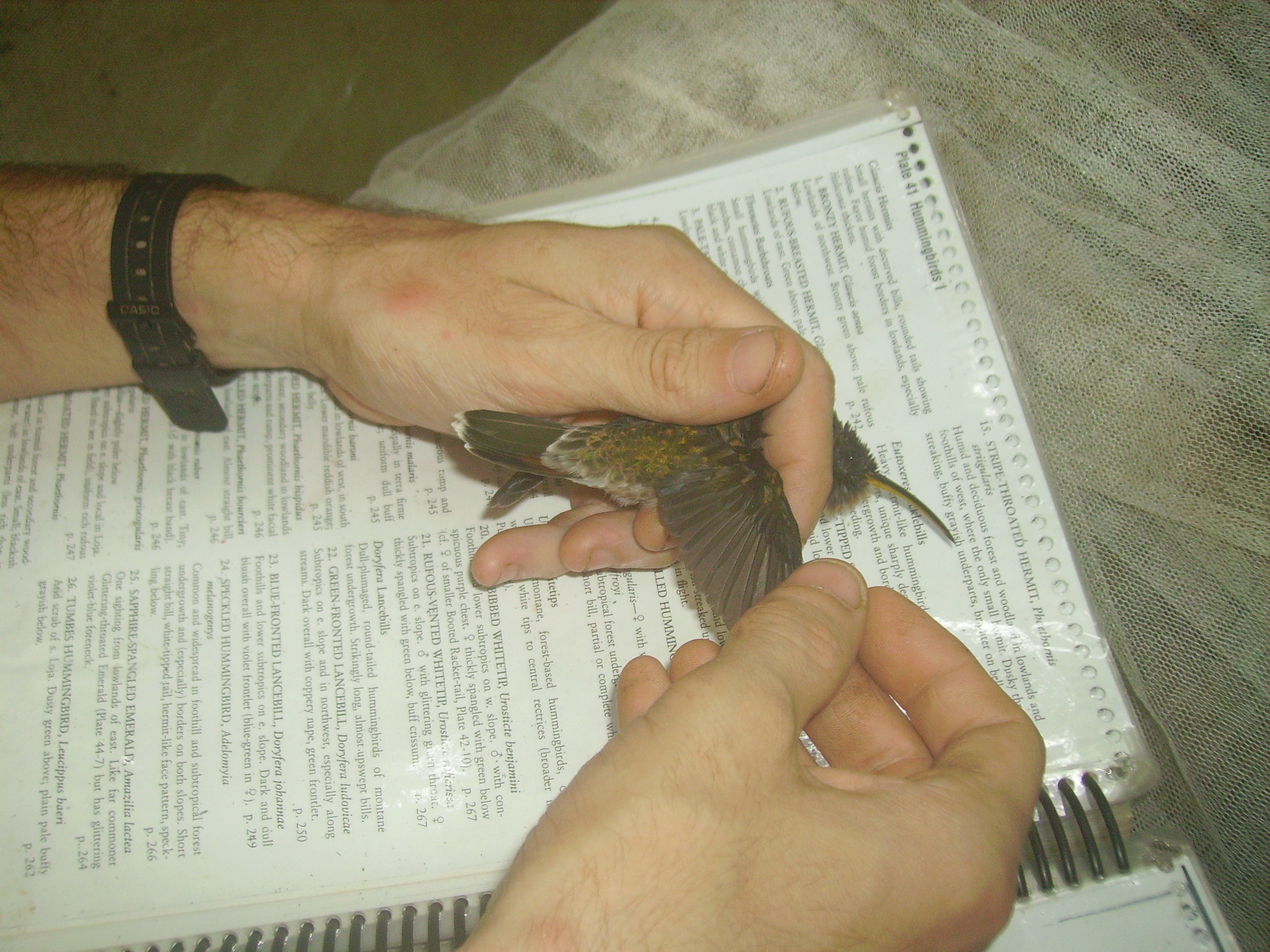 Rufous-breasted Hermit (Glaucis hirsutus) in the Napo Region, Ecuador.